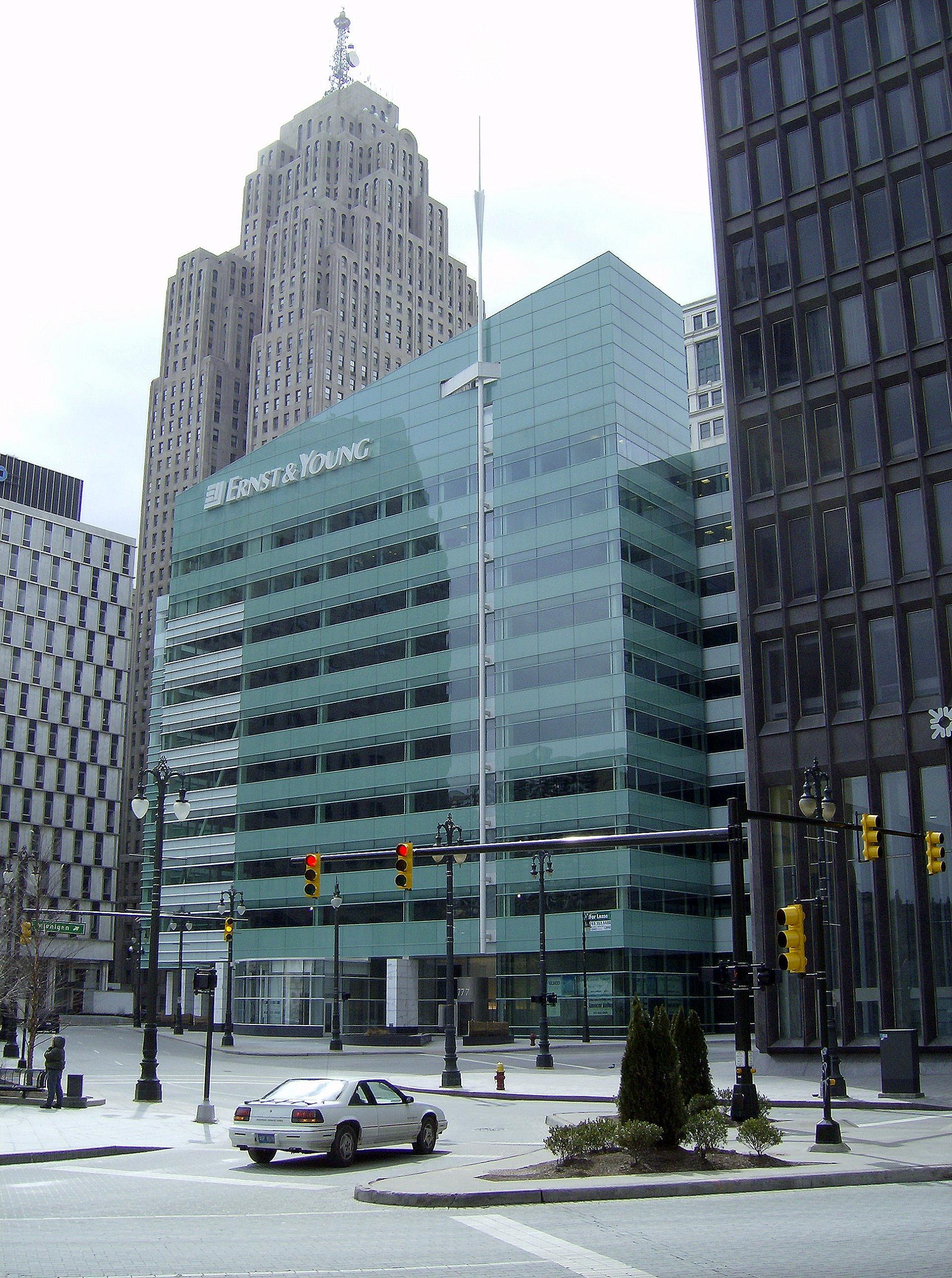 One Kennedy Square building in downtown Detroit, Michigan. the building is located on Woodward Avenue and Campus Martius Park. The green tinted glass building was built (2006) on the site of the former Detroit City Hall. The Art Deco Penobscot Building rises in backround.